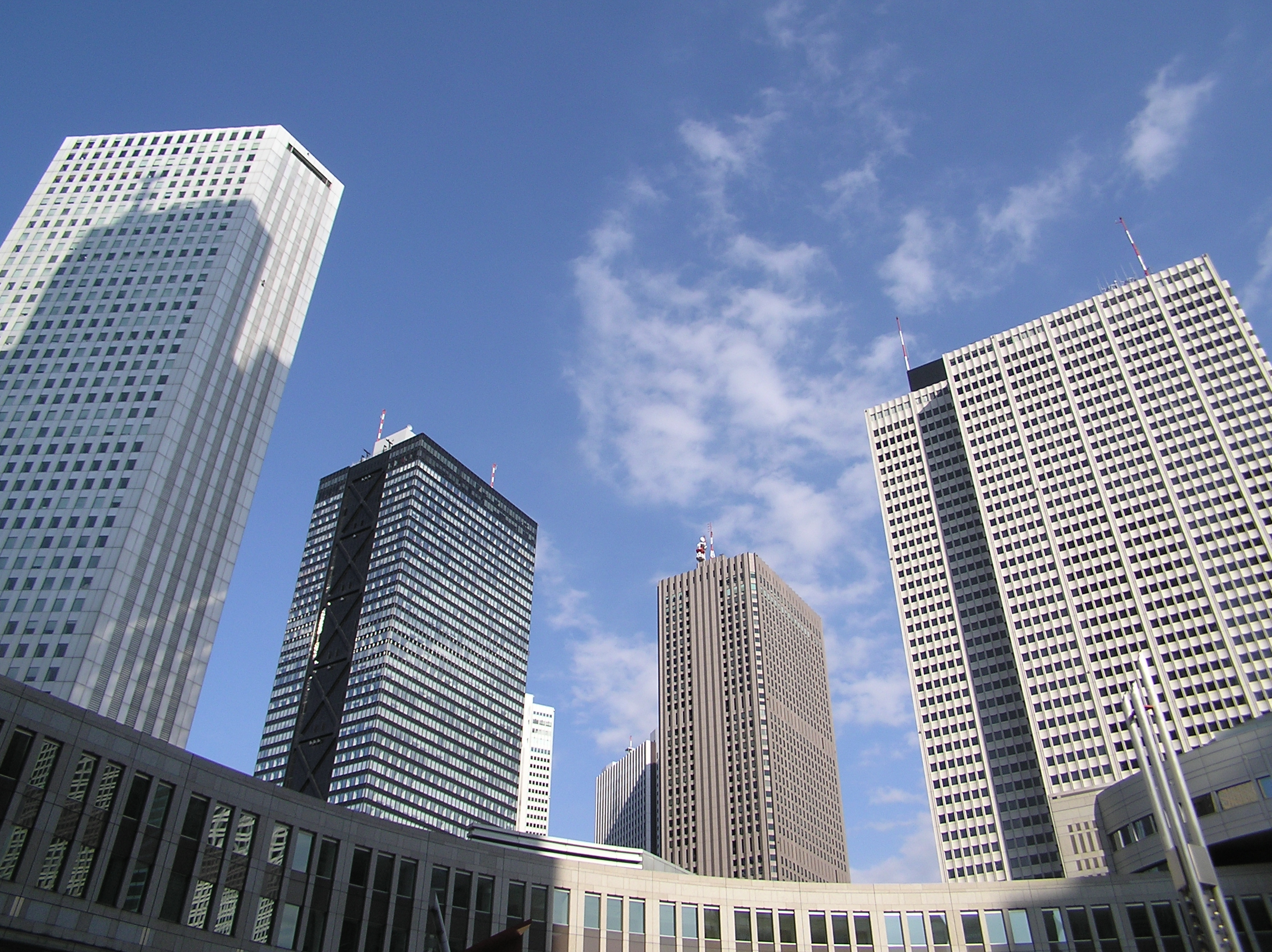 Skyscrapers of Shinjuku Left end: Shinjuku Sumitomo Building Black-bldg.: Shinjuku Mitsui Building White-bldg., a parte: Shinjuku Nomura Building White-bldg., a parte: Sonpo-Japan Building Brown-bldg.: Shinjuku Center Building Right end.: Keio Plaza Hotel